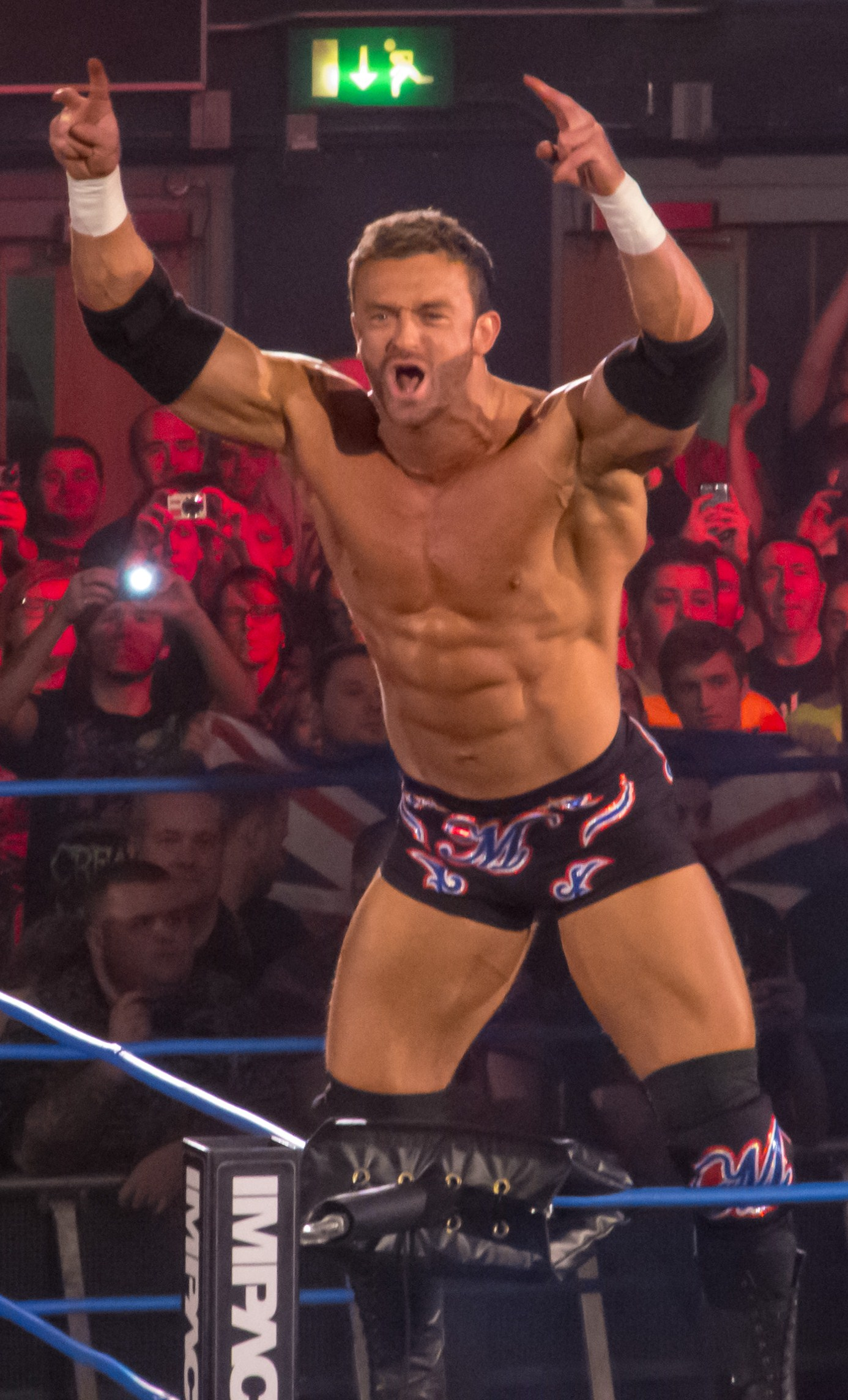 Magnus at the Impact! TV Tapings in Wembley, England on January 26, 2013.